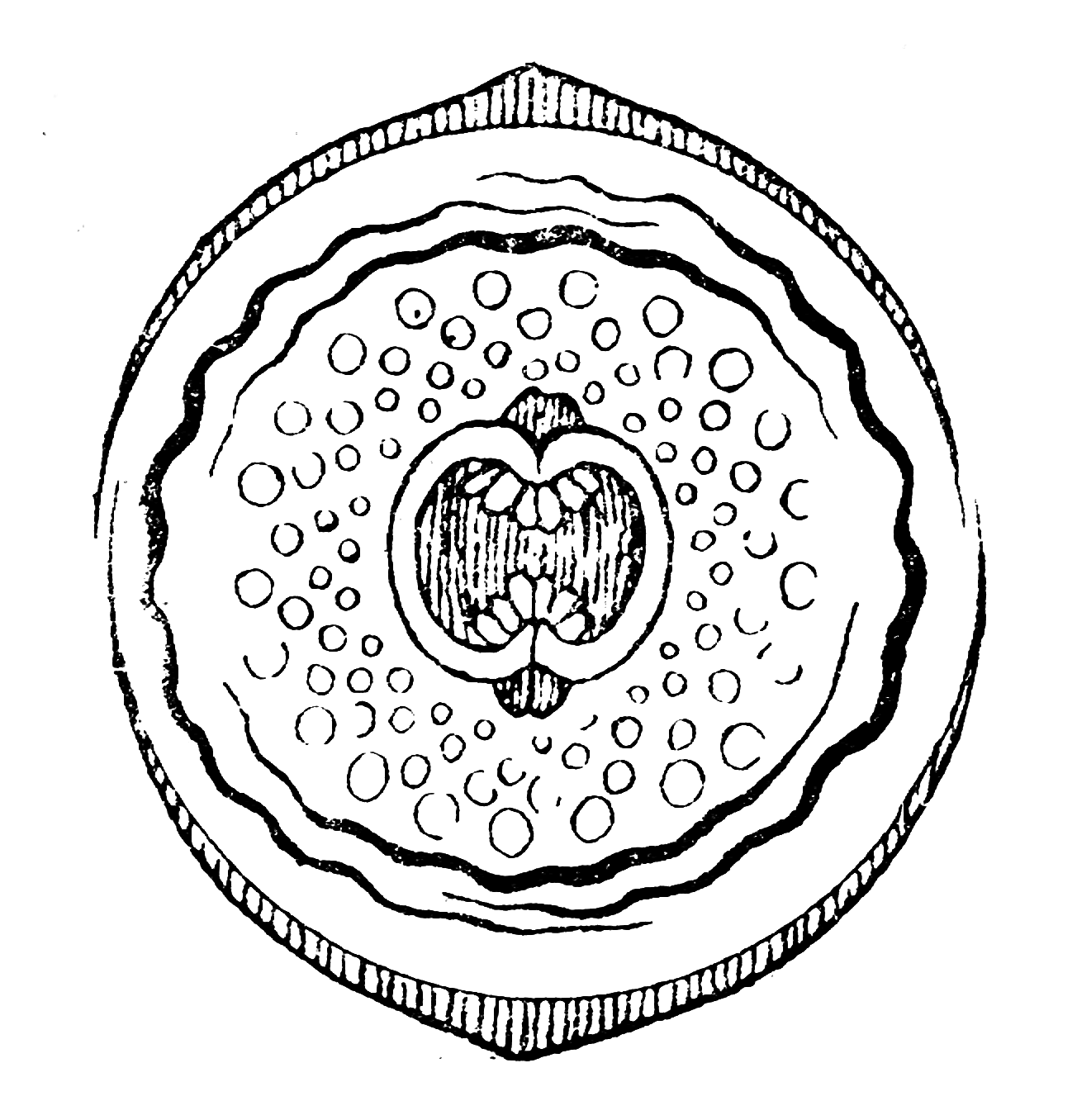 Flower diagram of Glaucium